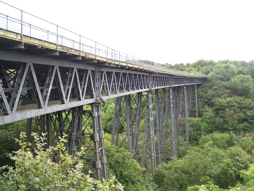 Author: Martin Cordon, Source: Own Picture, Martin Cordon 19:17, 7 November 2007 (UTC)